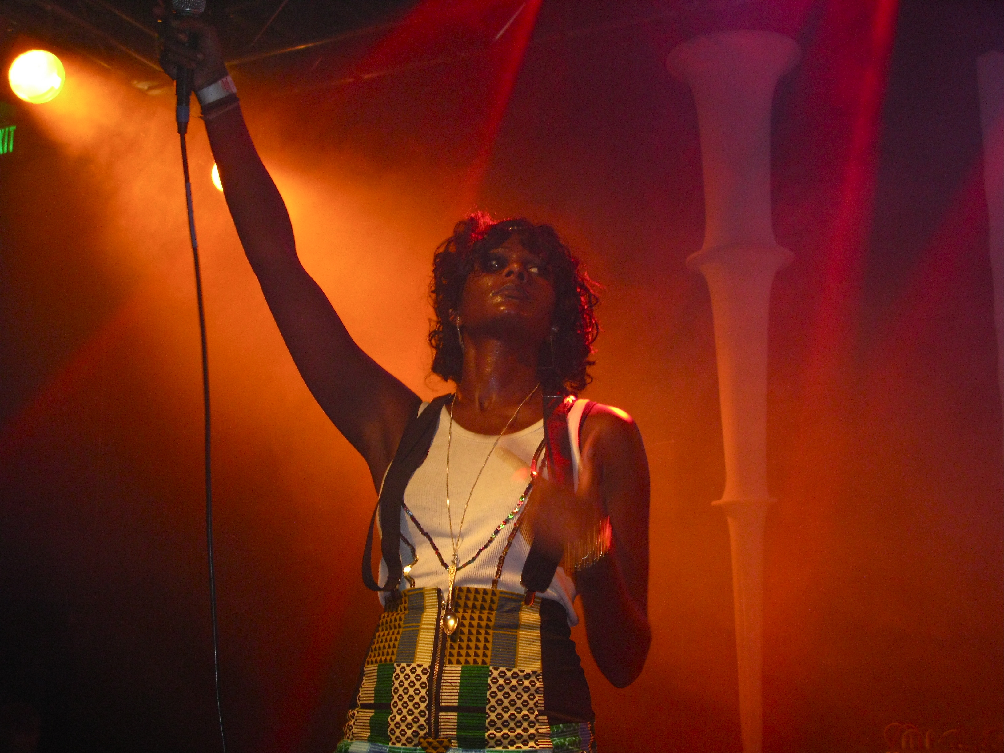 Berlin based Jacoozi singer Sasha Perera on stage at 25th September 2008 at Decibel Festival in Seattle at Neumos Crystal Ball Reading Room